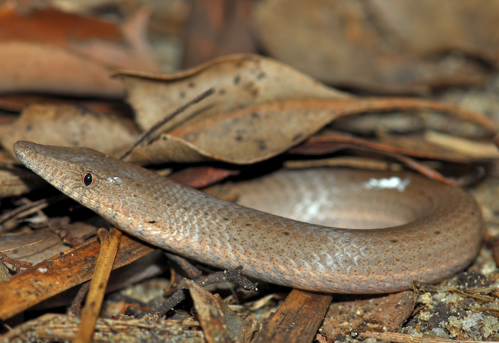 Burton's legless lizard (Lialis burtonis). Hiding in leaf litter. Taken at Mt Glorious, Brisbane, Queensland, Australia.